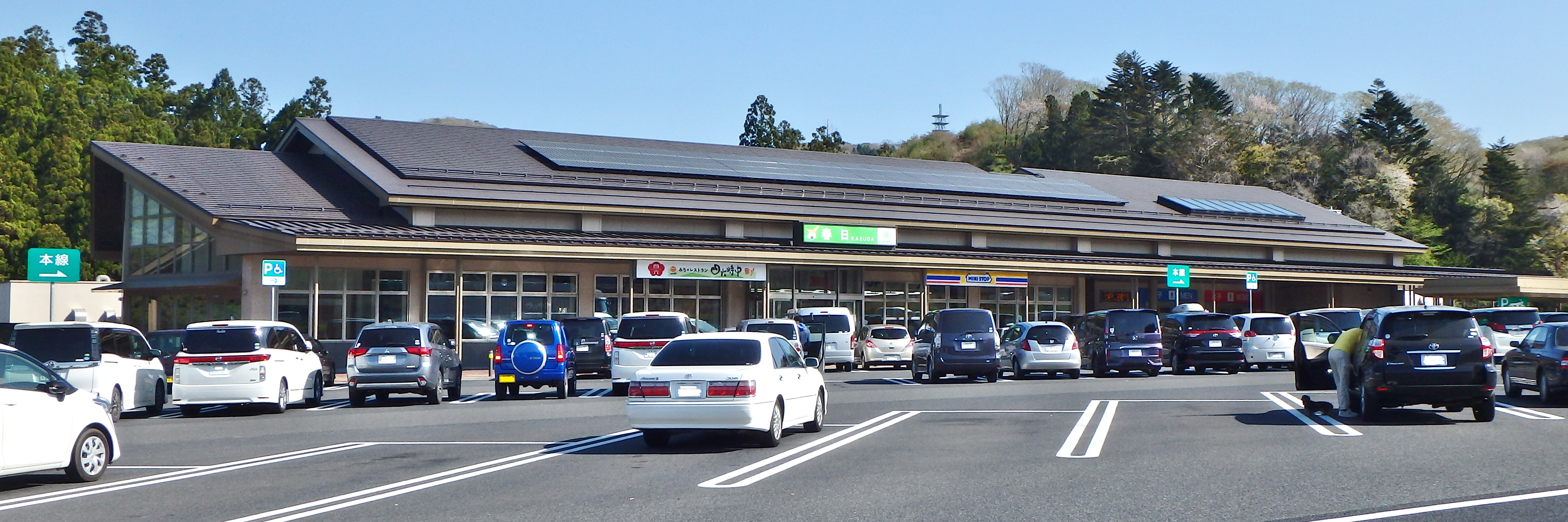 Kasuga Parkig Area for Iwate Pref., Miyagi Prefecture,Japan